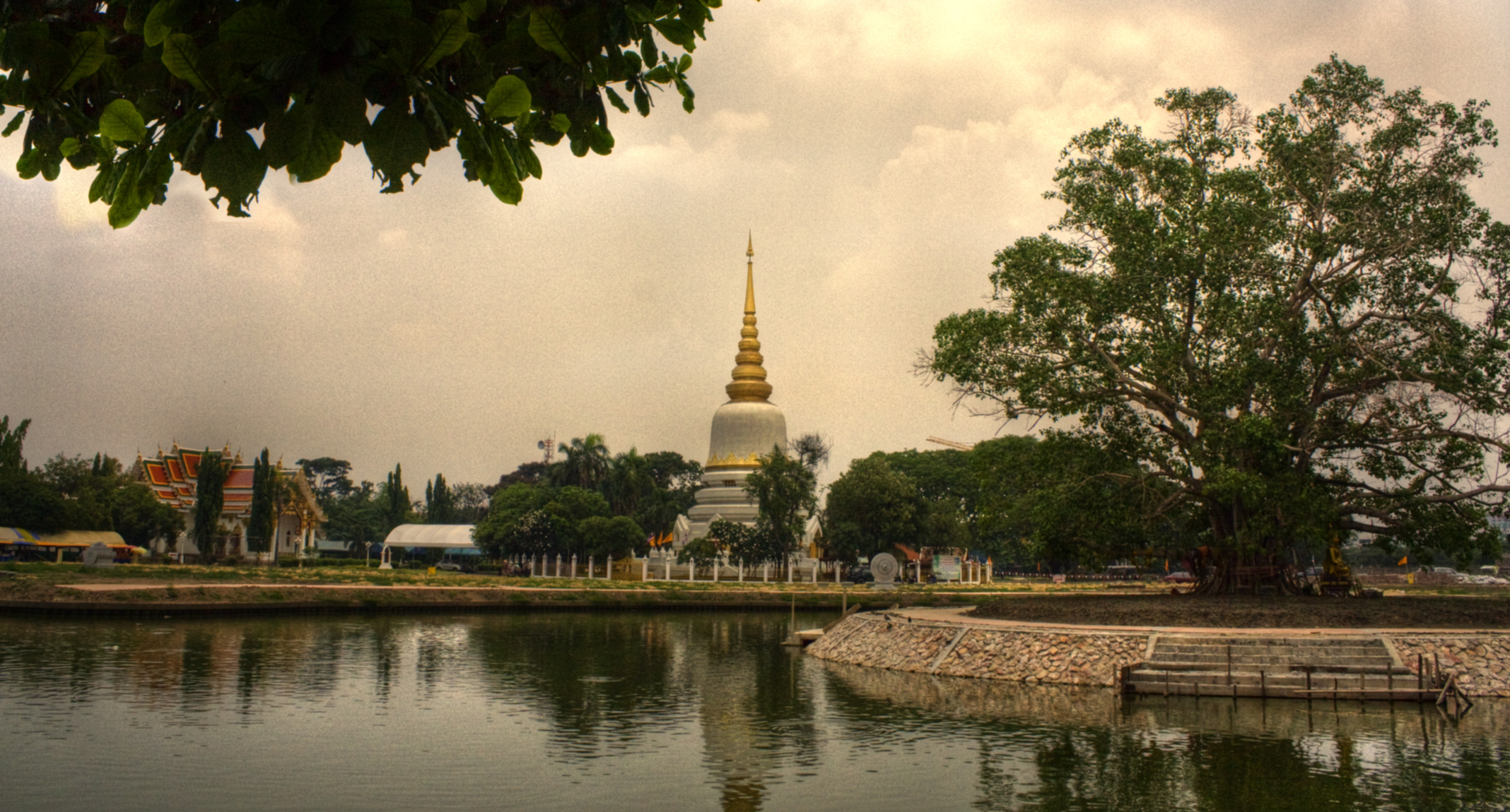 Wat Phra Sri Mahathat Woramahawihan - Buddhist monastery and meditation temple in Bang Khen, northern Bangkok